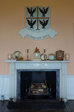 Clongowes Crest